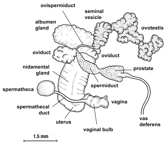 Drawing of reproductive system of Lymnaea meridensis from Laguna Mucubaji, Venezuela.